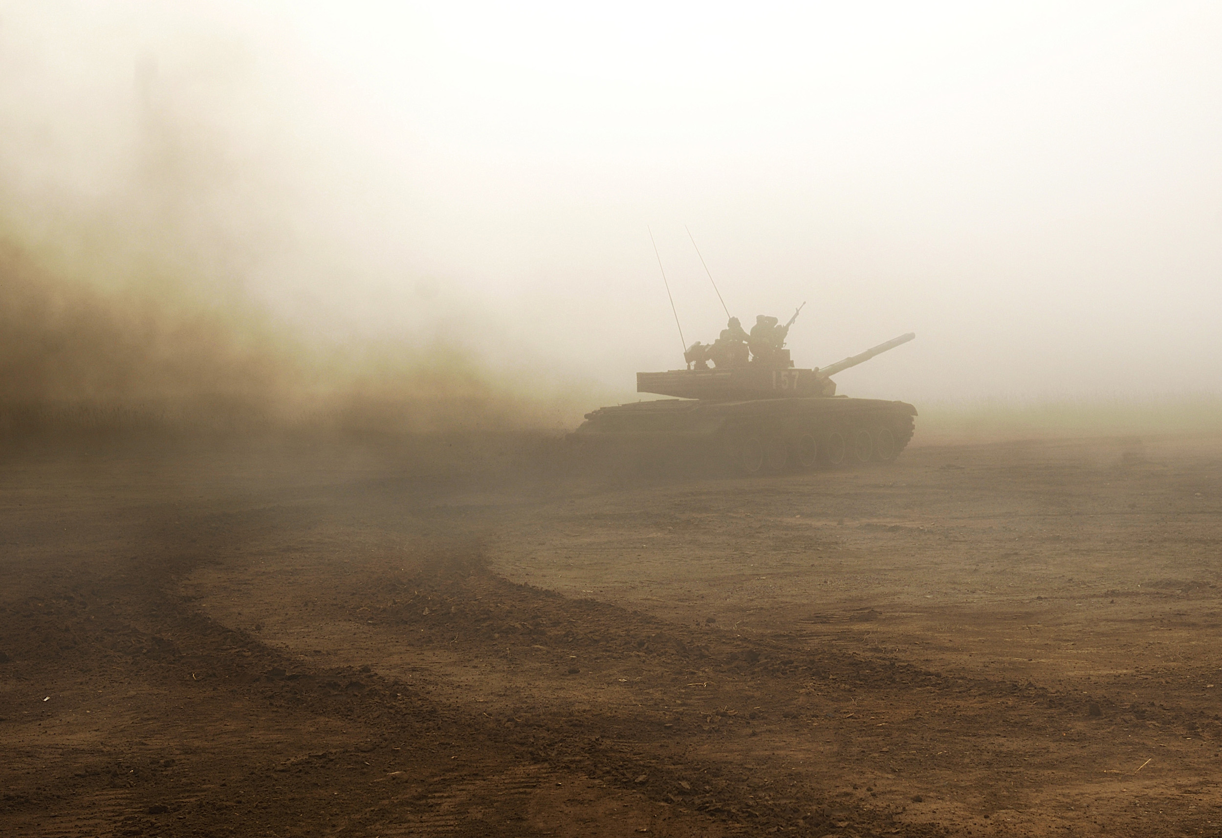 Chairman of the Joint Chiefs of Staff U.S. Marine Gen. Peter Pace takes a ride on a Chinese tank, the TC-98, at Shenyang training base, China, March 24, 2007. Defense Dept. photo by U.S. Air Force Staff Sgt. D. Myles Cullen